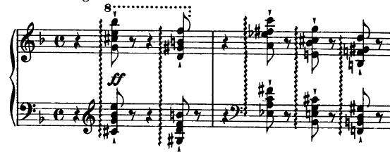 Beginning of the Transcendental Étude No. 4, "Mazeppa", by Franz Liszt.